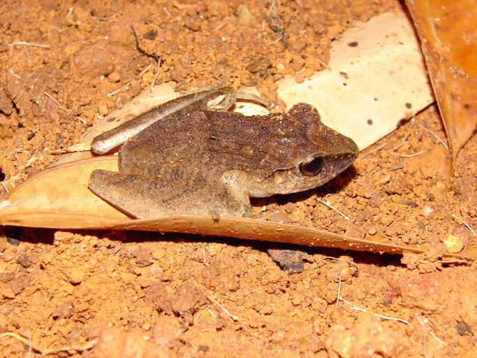 Haddadus binotatus